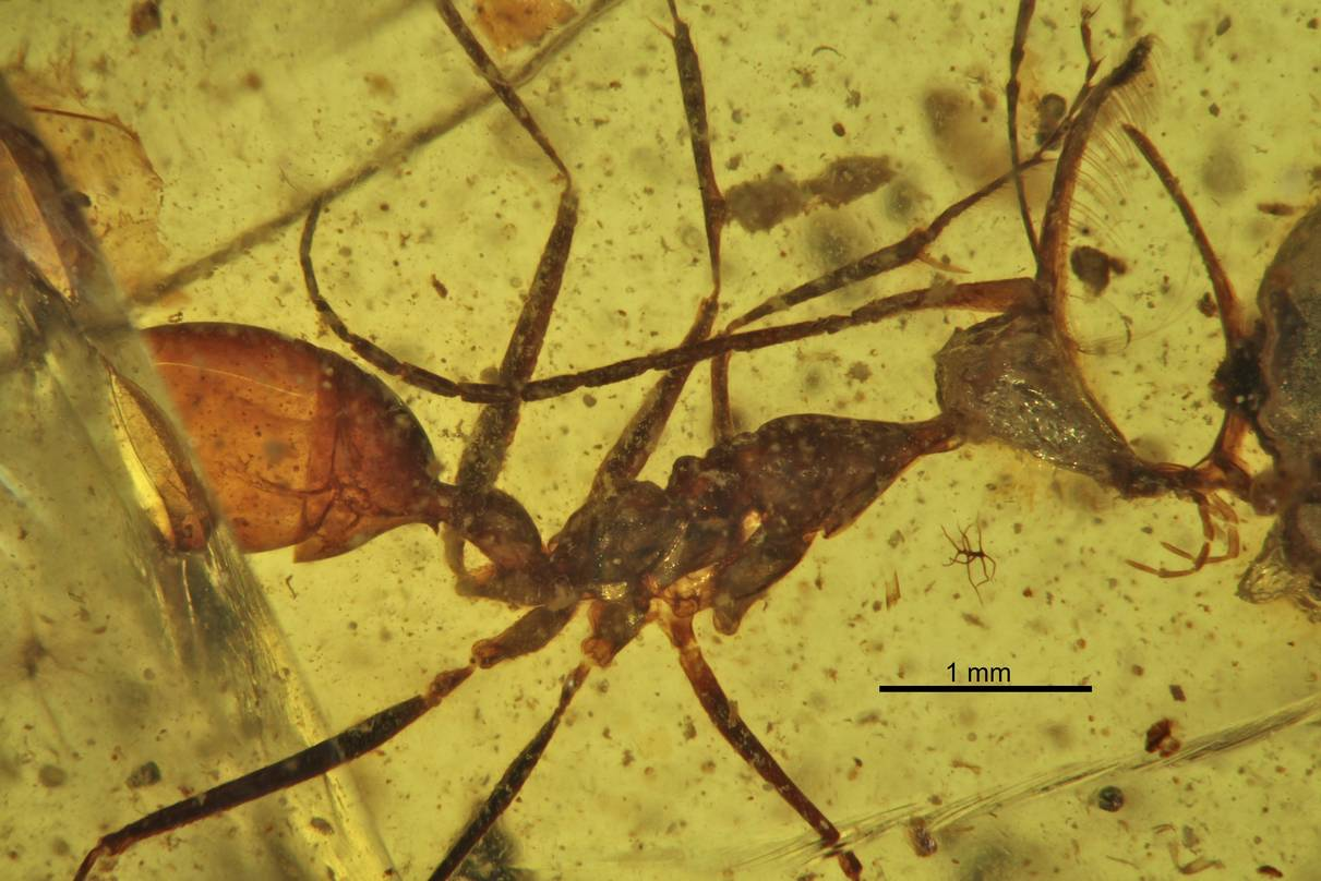 Profile view of a Ceratomyrmex ellenbergeri worker. Paratype specimen IGR.BU-002, Geological Department of the University of Rennes, France Burmese amber, Earliest Cenomanian; Kachin State, Myanmar